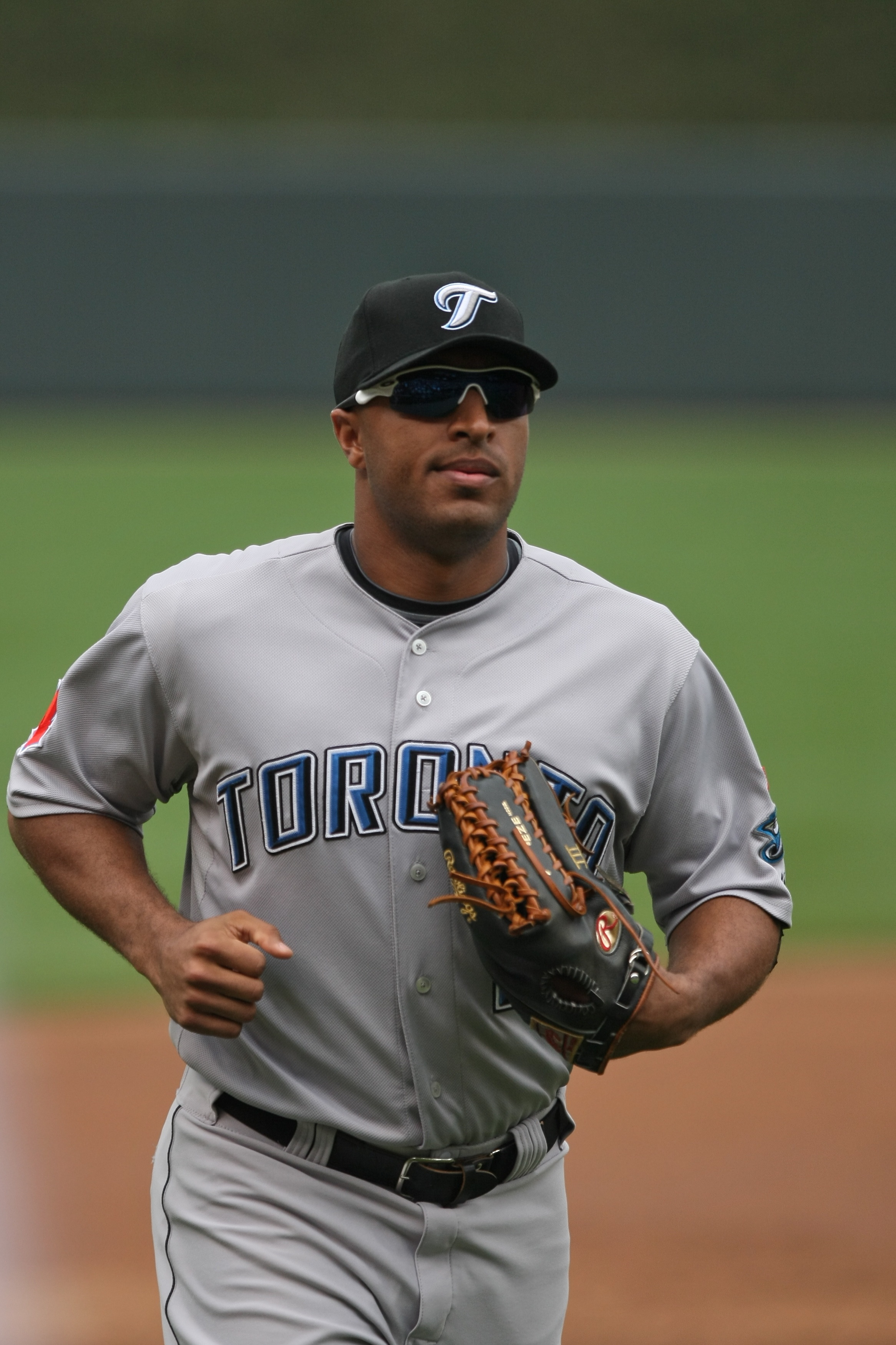 Vernon Wells jogging to the dugout